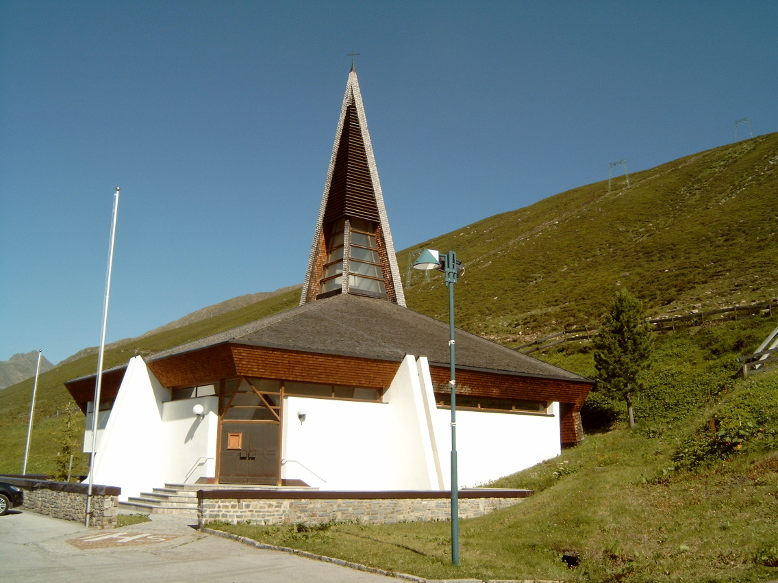 "Kühtaisattel", church in village "Kühtai" at top of the pass